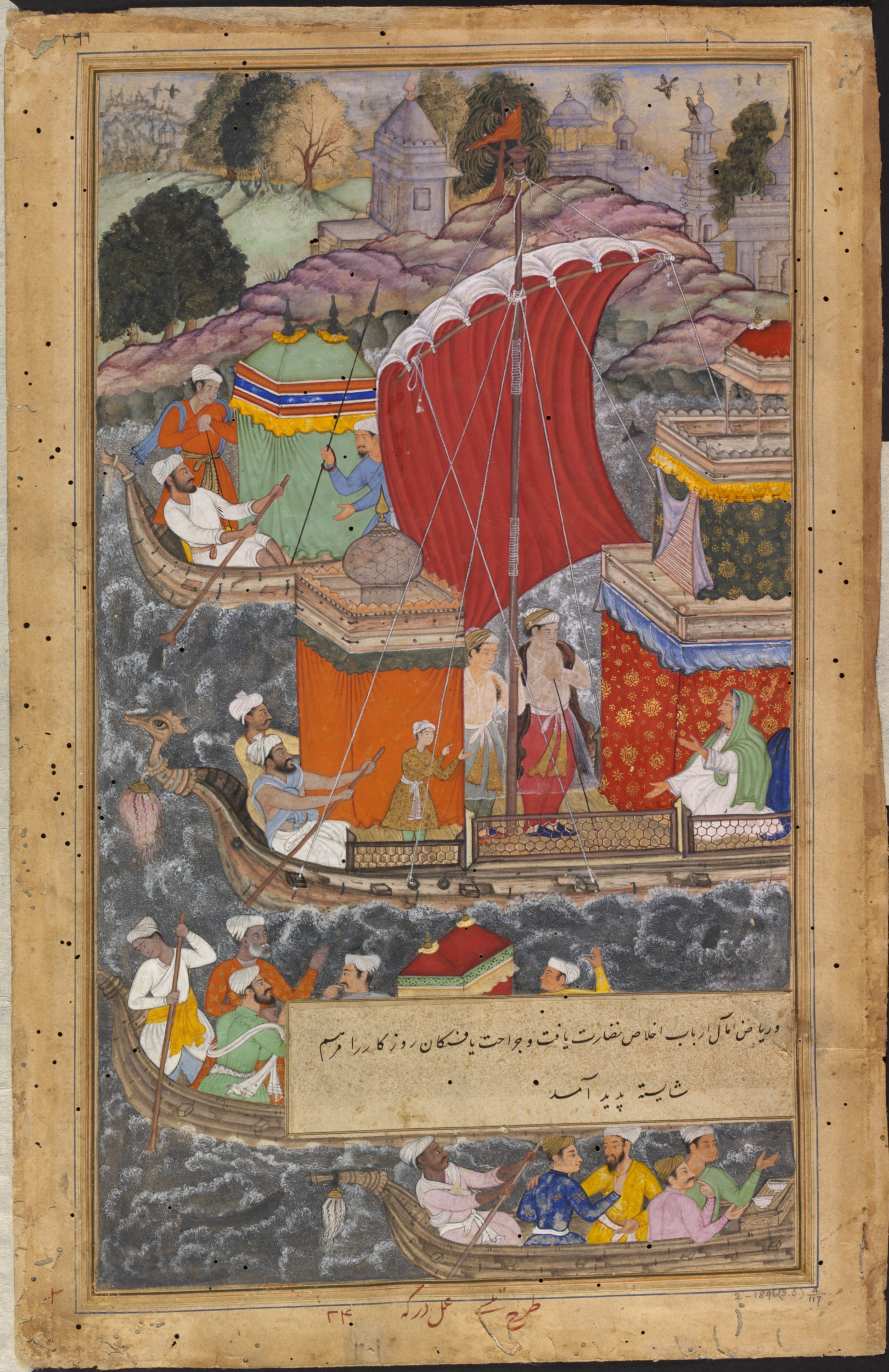 This painting from the official history of Akbar's reign depicts his mother, Mariam Makani, travelling to Agra by river. It is related to IS.2:3-1896 which shows several boats including that of the emperor, and was painted by Tulsi and Durga. The Akbarnama (Book of Akbar) was commissioned by the emperor Akbar as the official chronicle of his reign. It was written by his court historian and biographer Abu'l Fazl between 1590 and 1596 and is thought to have been illustrated between c. 1592 and 1594 by at least forty-nine different artists from Akbar's studio. After Akbar's death in 1605, the manuscript remained in the library of his son, Jahangir (r. 1605-1627) and later Shah Jahan (r. 1628-1658). The Victoria and Albert Museum purchased it in 1896 from Mrs. Frances Clarke, the widow of Major General Clarke, an official who had been the Commissioner in Oudh province between 1858 and 1862.